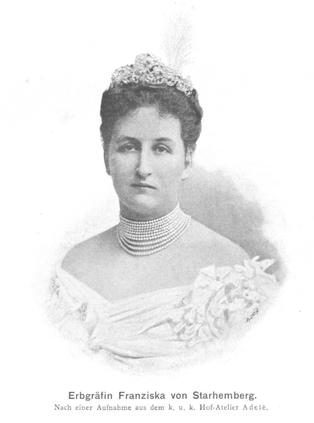 Portrait of Fanny Starhemberg (1875-1943), Austrian politician